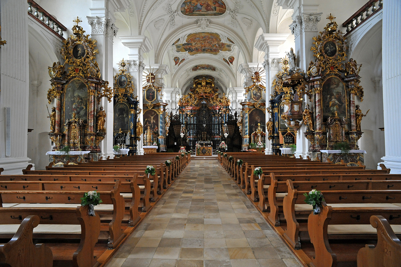 Rheinau Abbey; Zurich, Switzerland.